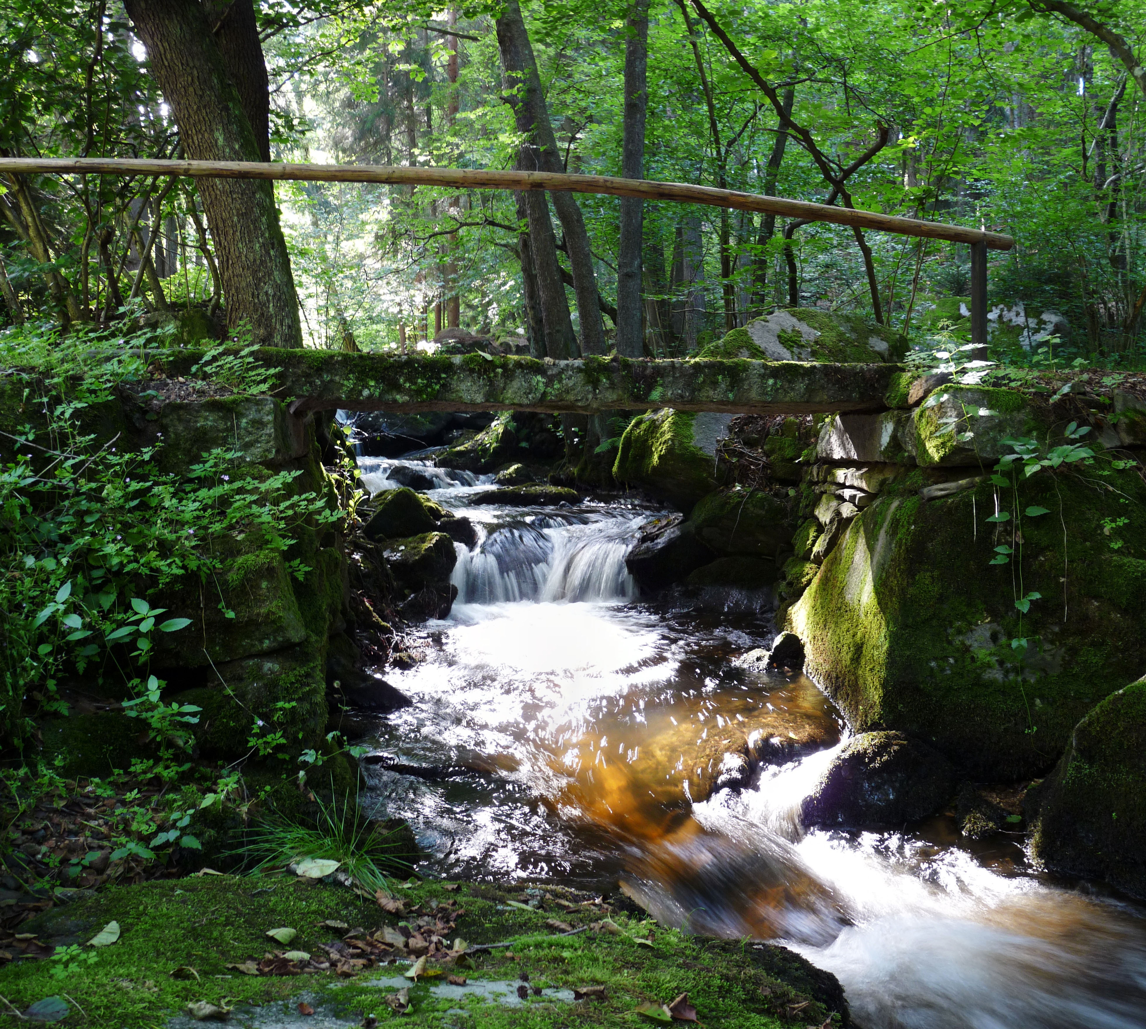 Educational trail Opatská stezka (Abbot Trail) along the Menší Vltavice River in Vyšší Brod, Český Krumlov District, Czech Republic. Česky: NS Opatská stezka podél Menší Vltavice ve Vyšším Brodě v okrese Český Krumlov.